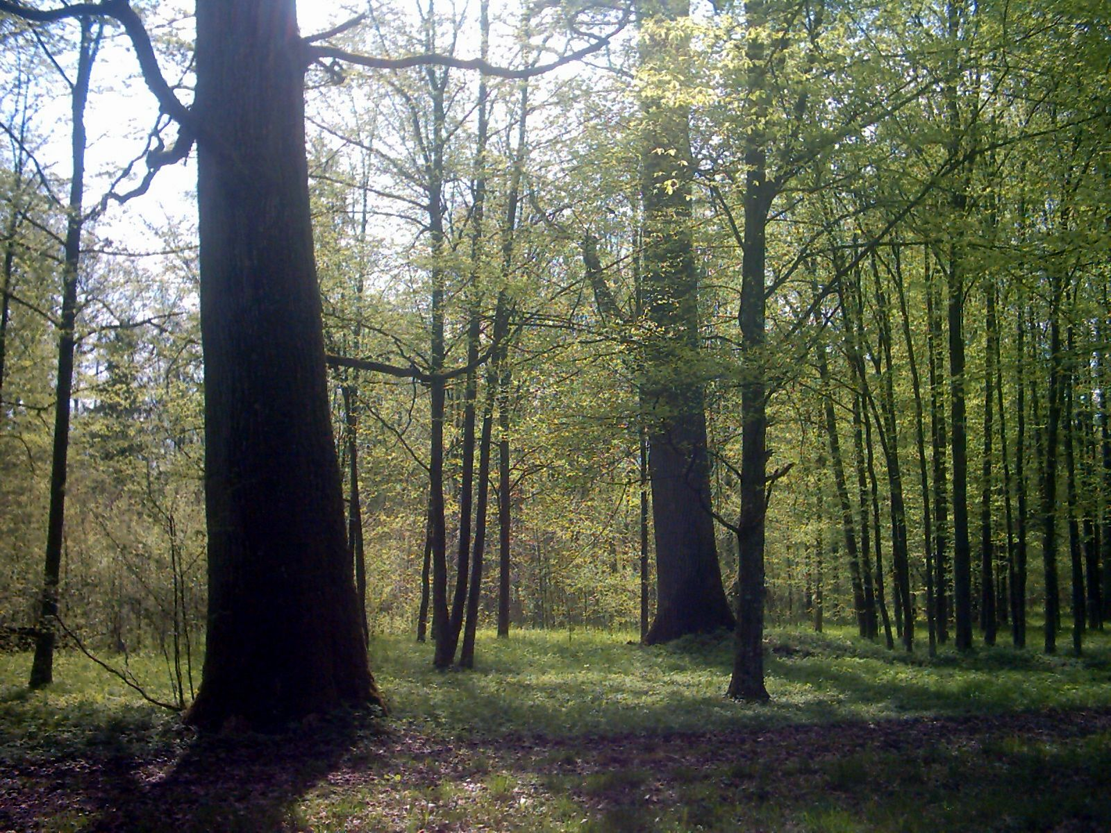 Oak in Budy